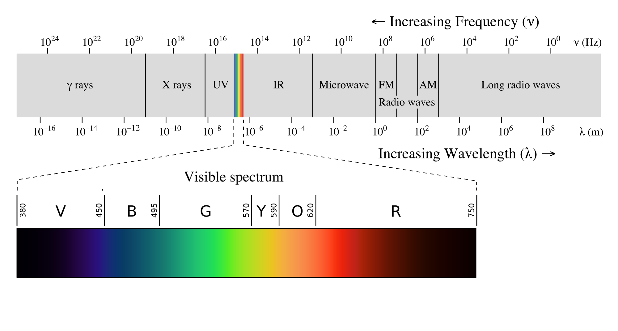 Revised diagram with re-aligned spectrum